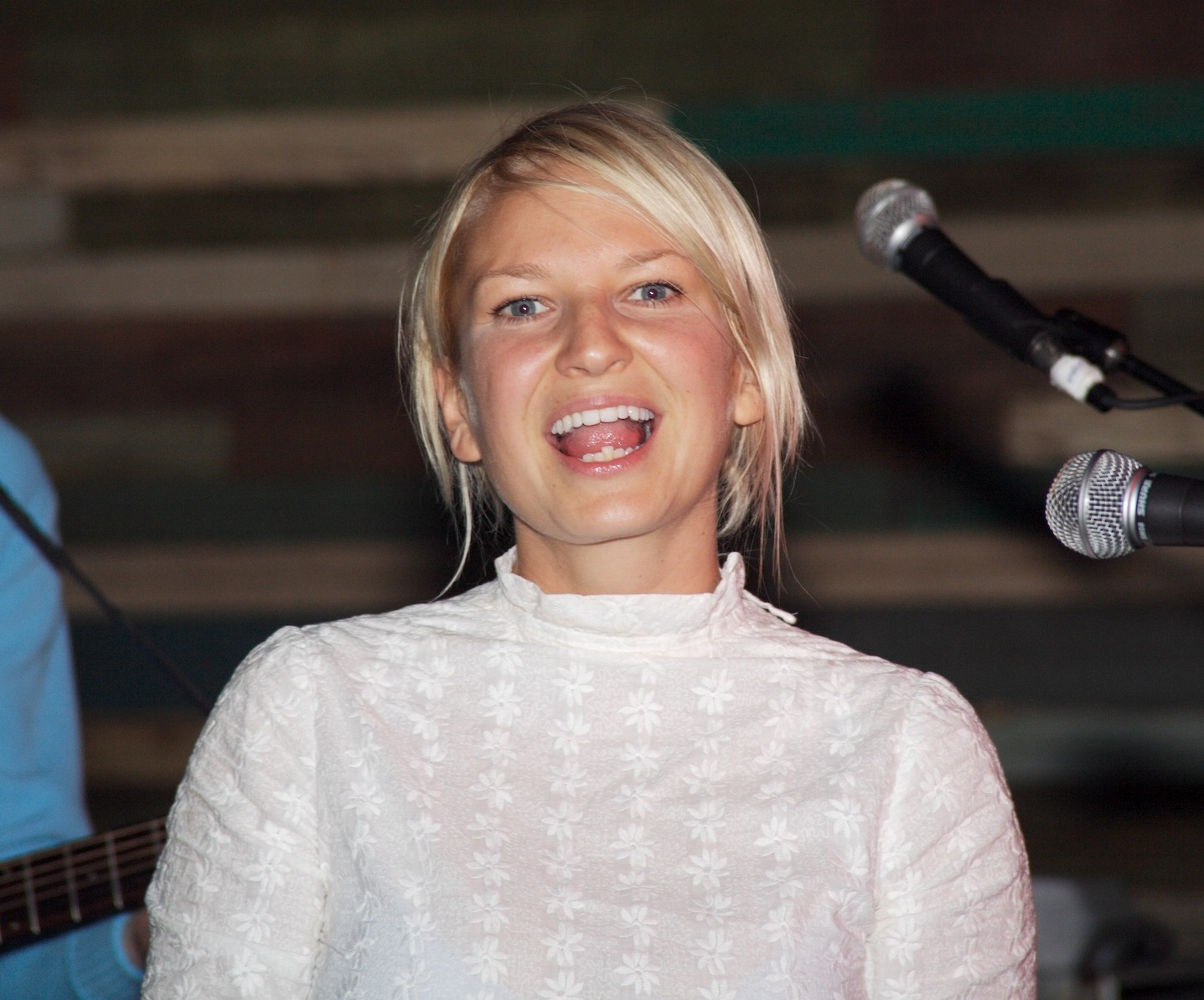 Australian musician Sia at The Parish (live music venue) in Austin, 2006